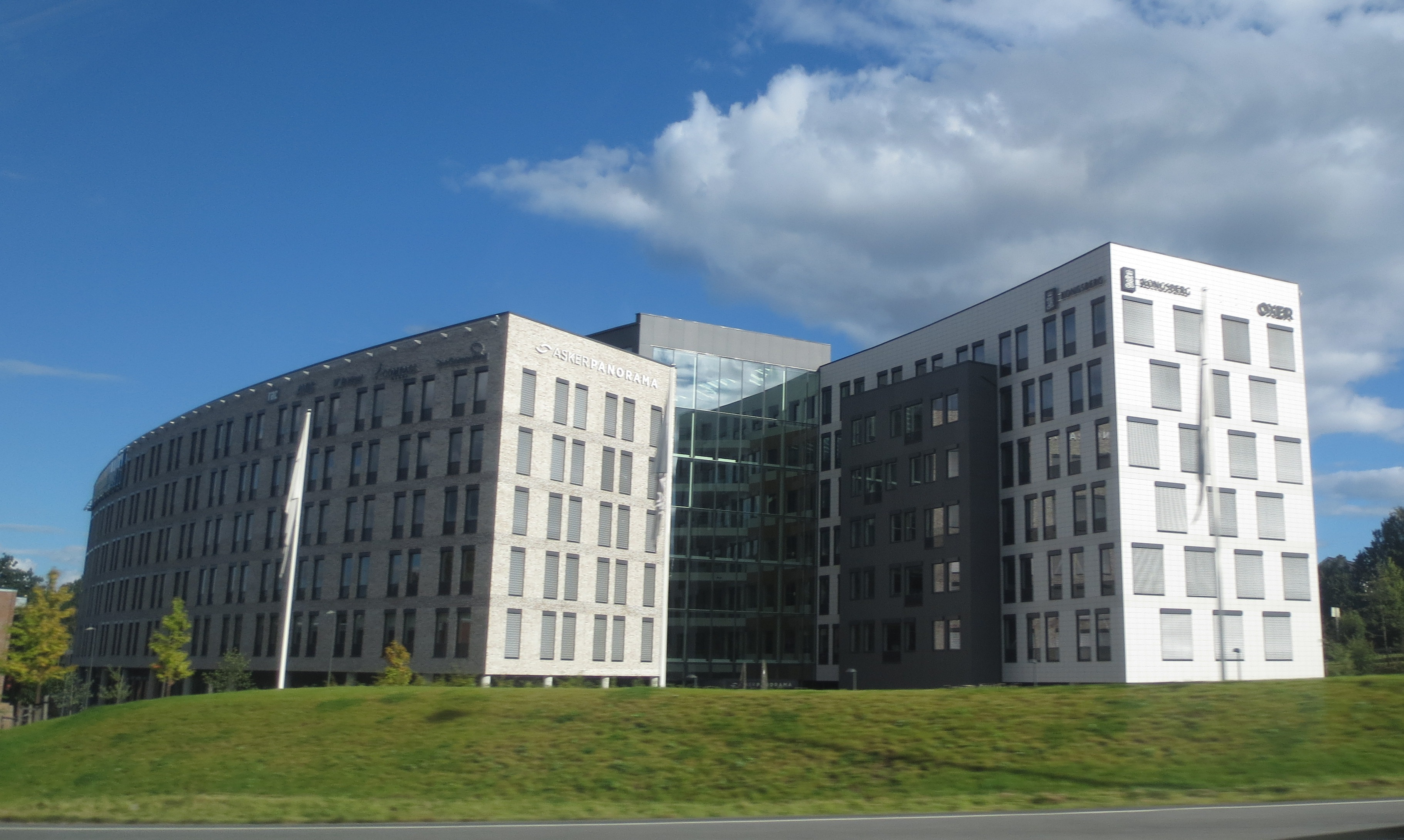 Image of the Office complex "Asker Panorama", in Asker municipality, Norway. The Office is part of the Kongsberggruppen (Kongsberg Group) headquarters.